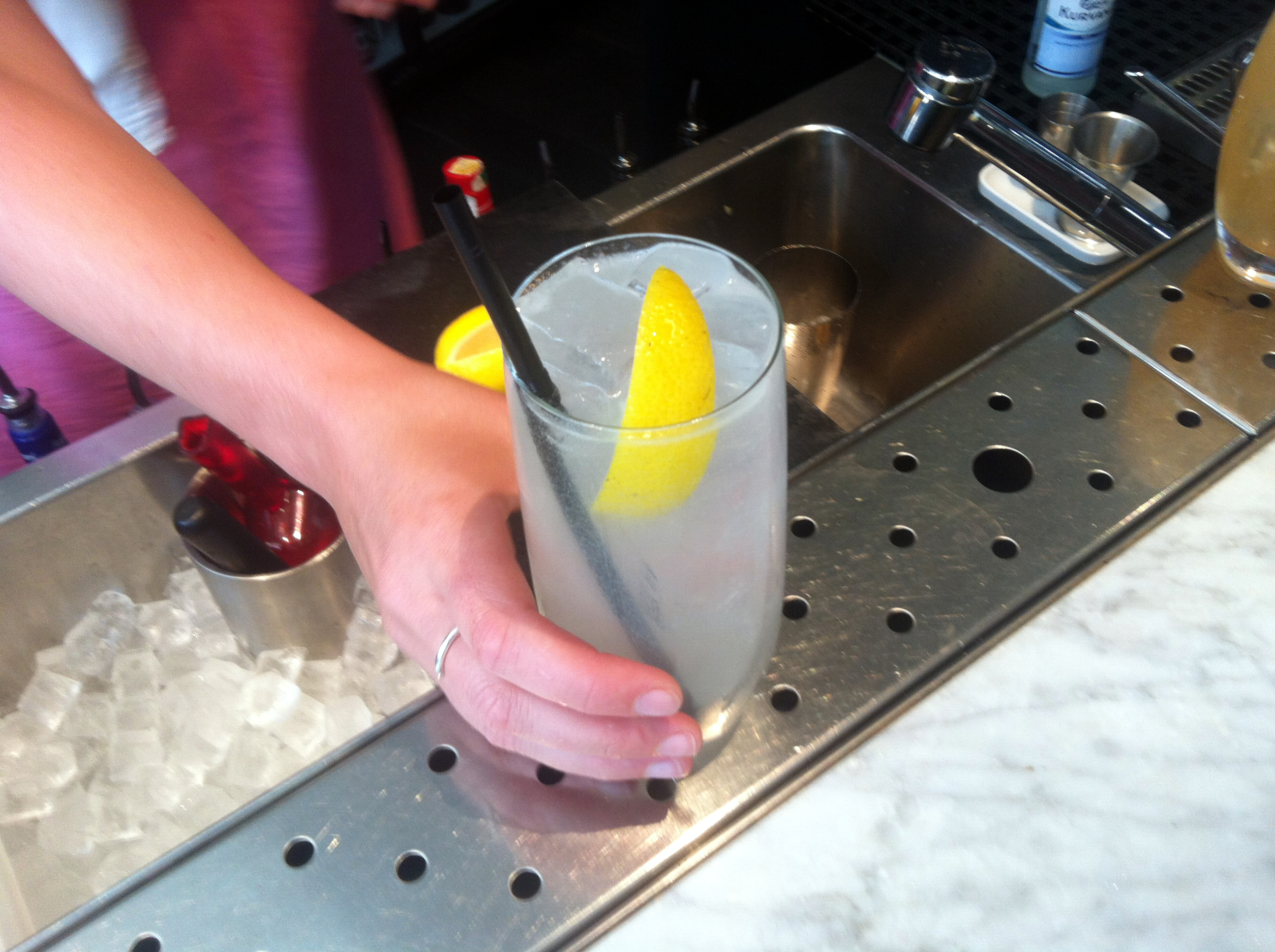 Tom Collins in Copenhagen